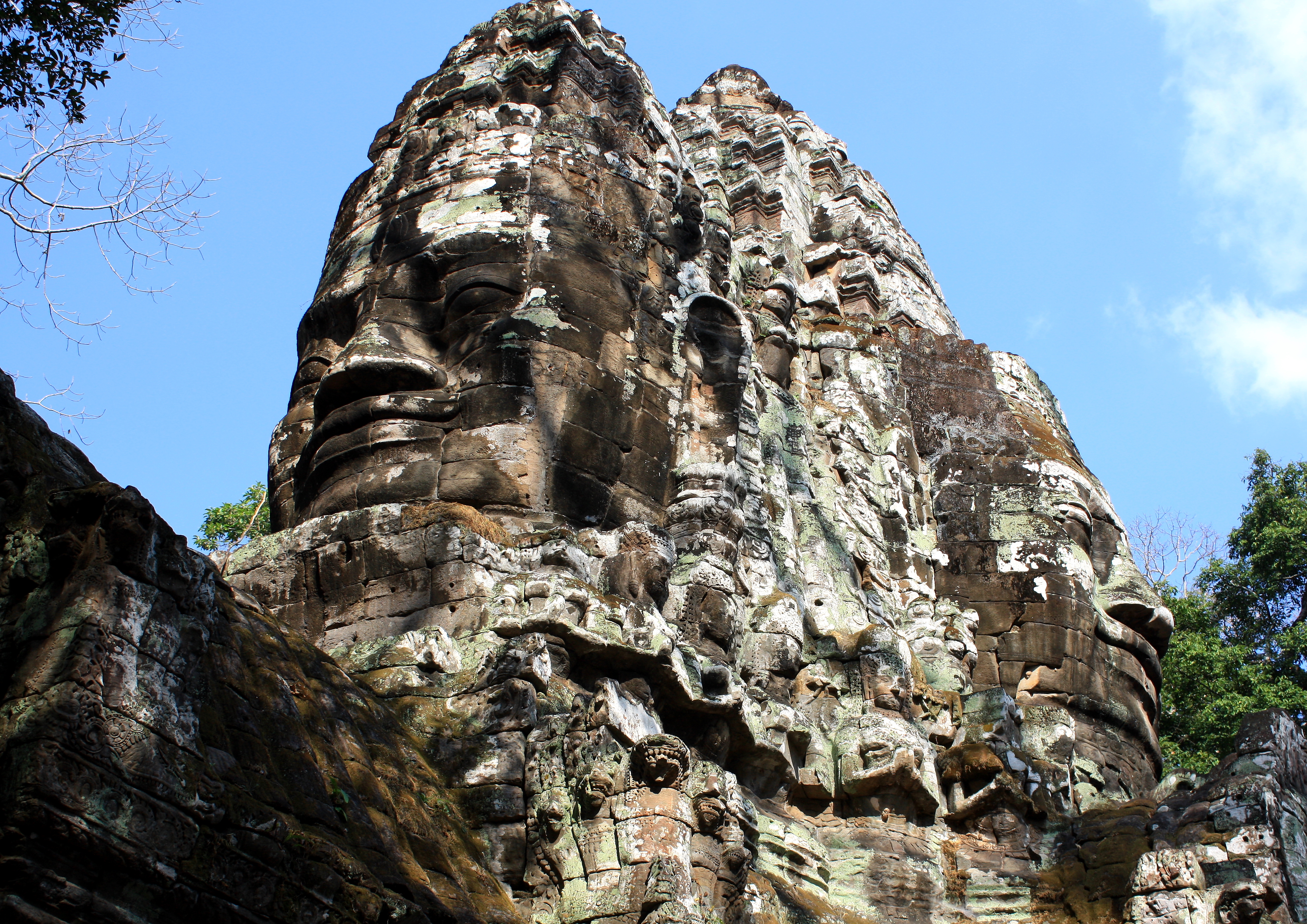 Angkor Thom Gate...